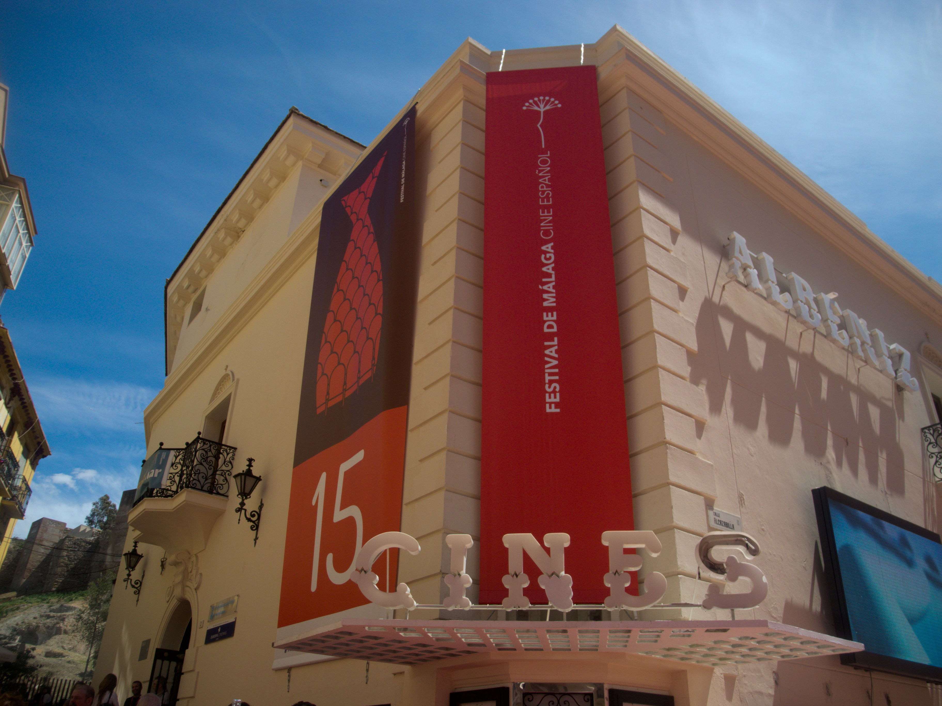 Albeniz Cinema, Malaga, Spain.